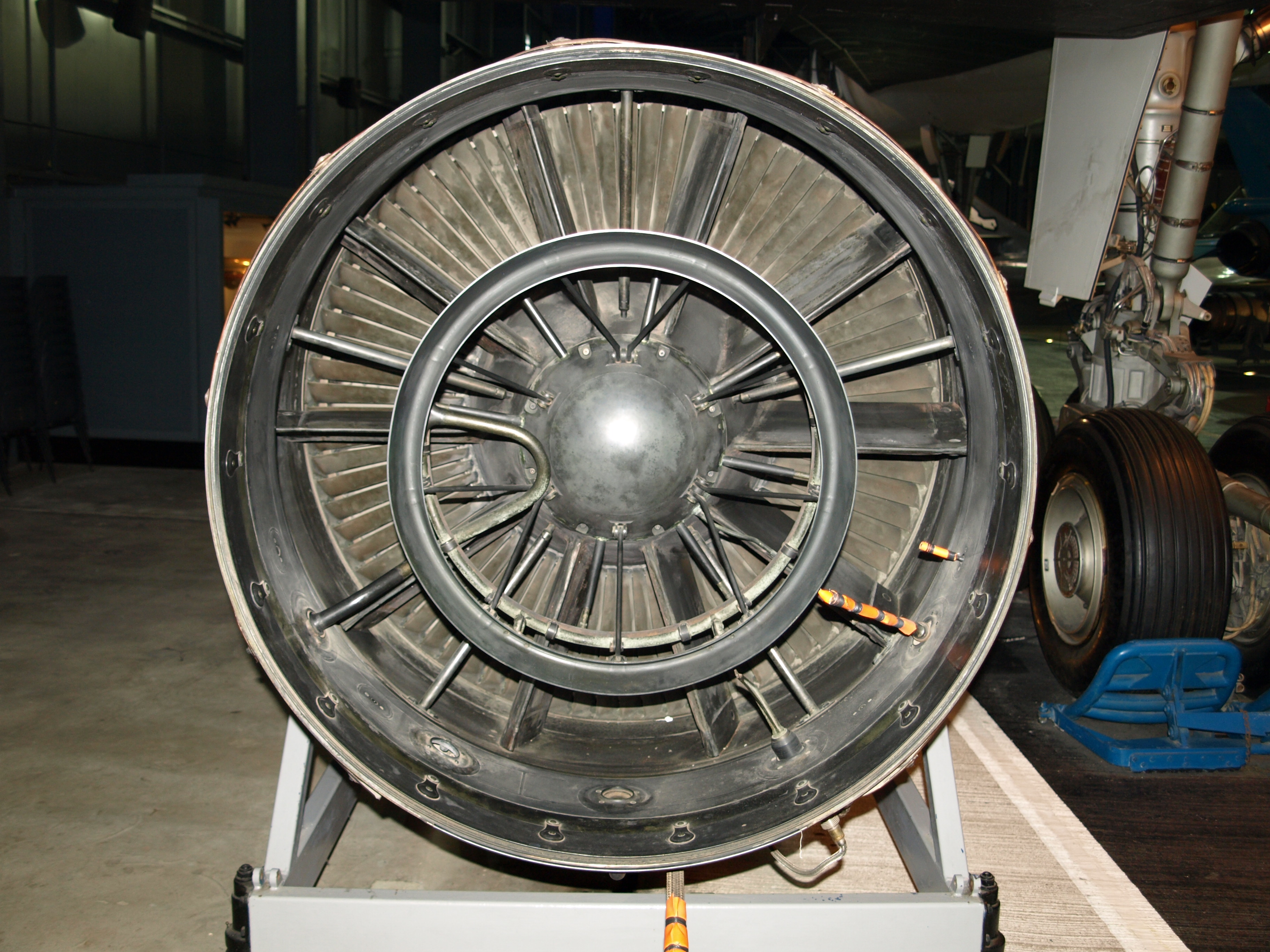 Turbine section of a Rolls-Royce/Snecma Olympus 593 turbojet engine on display at the Fleet Air Arm Museum, RNAS Yeovilton. It actually shows the re-heat outlet of the engine.